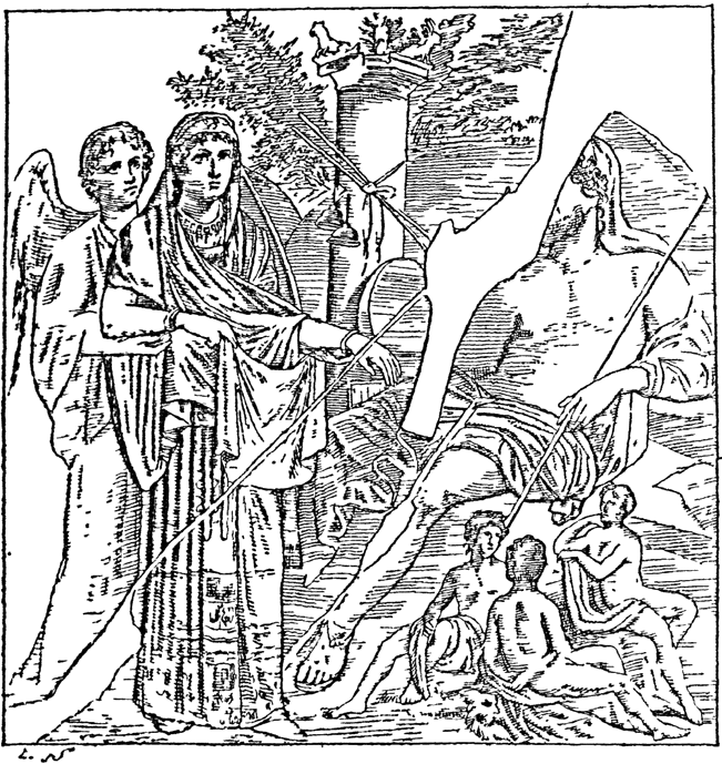 Fresco of Pompeii, now in the Museo Archeologico Nazionale in Naples. Hieros gamos of Hera, accompanied by Iris, with Zeus.